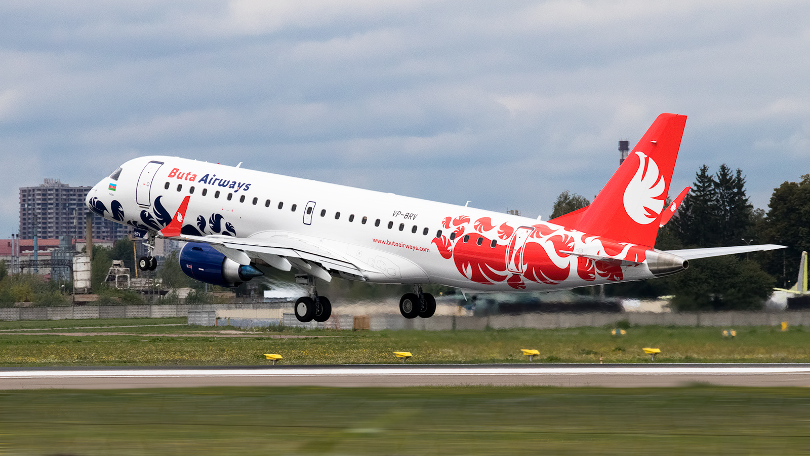 Buta Airways Embraer 190 (VP-BRV) at Kyiv Zhulyany